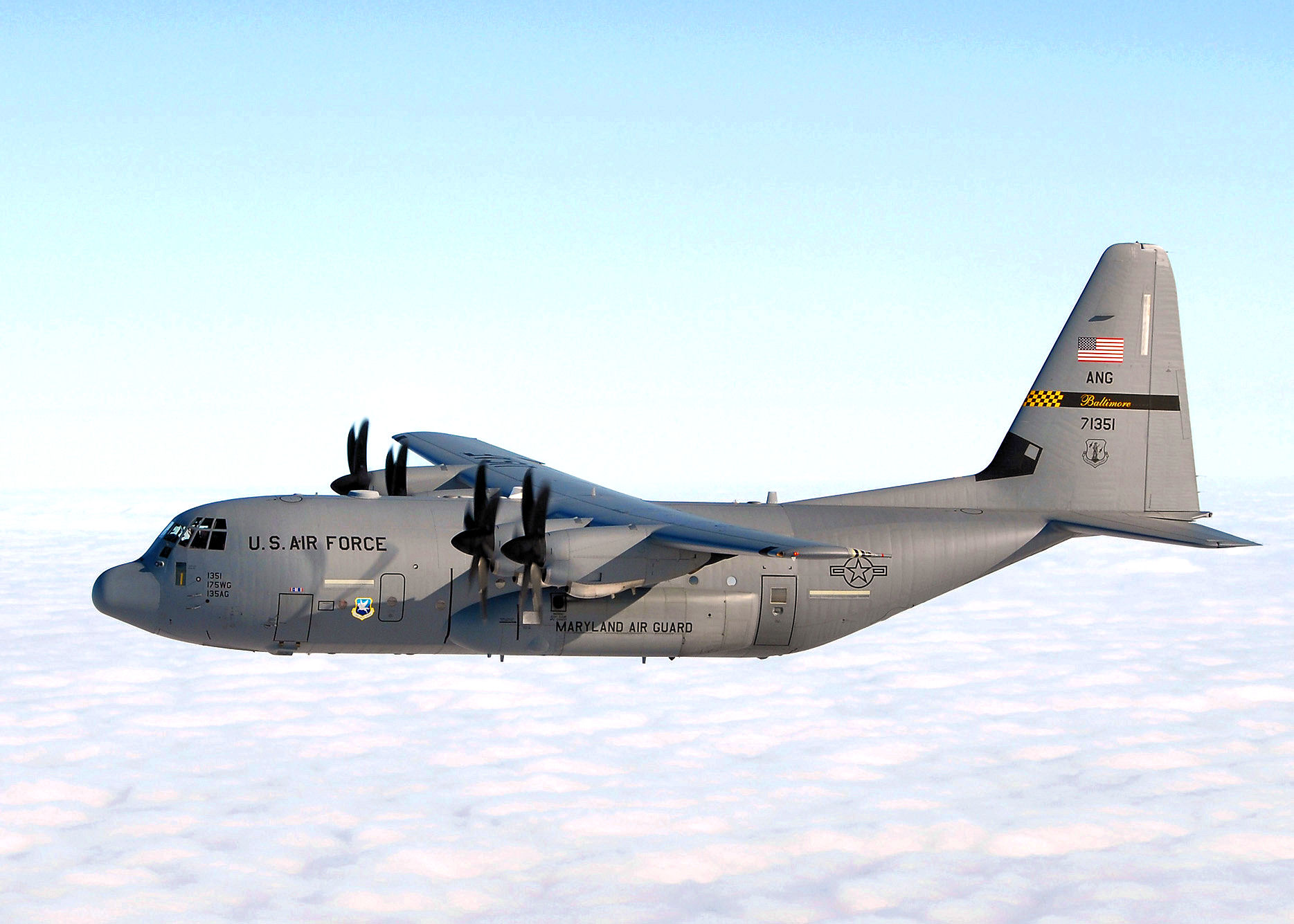 C-130J aircraft from the Maryland Air National Guard stationed at Warfield Air National Guard base in Baltimore, Maryland flying during a training exercise. (File Photo, RELEASED)